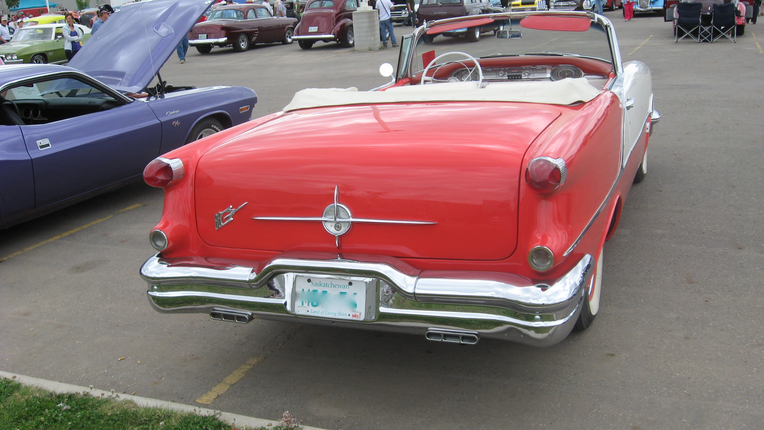 '56 olds super 88 'vert rear, shot at local car show/swap meet